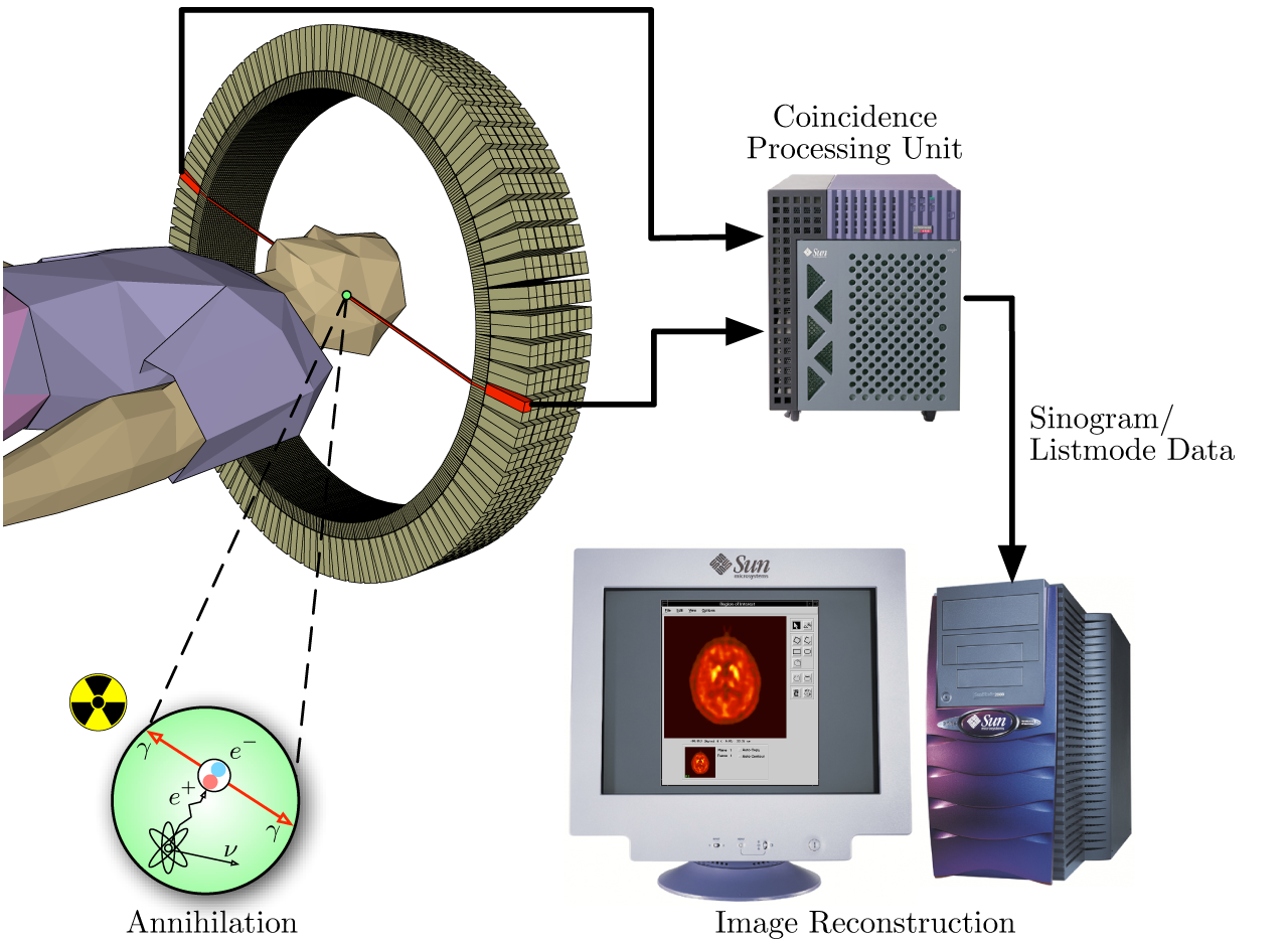 The image illustrates the processing principles of a positron emission tomograph (PET) commonly used in cancer diagnostics. It shows how during the annihilation process two photons are emitted in diametrically opposite directions. These photons are registered by the scanner as soon as they arrive at the detector ring. After the registration, the data is forwarded to a processing unit which decides if two registered events are selected as a so-called coincidence event. All coincidences are forwarded to the image processing unit where the final image data is produced via mathematical image reconstruction procedures.